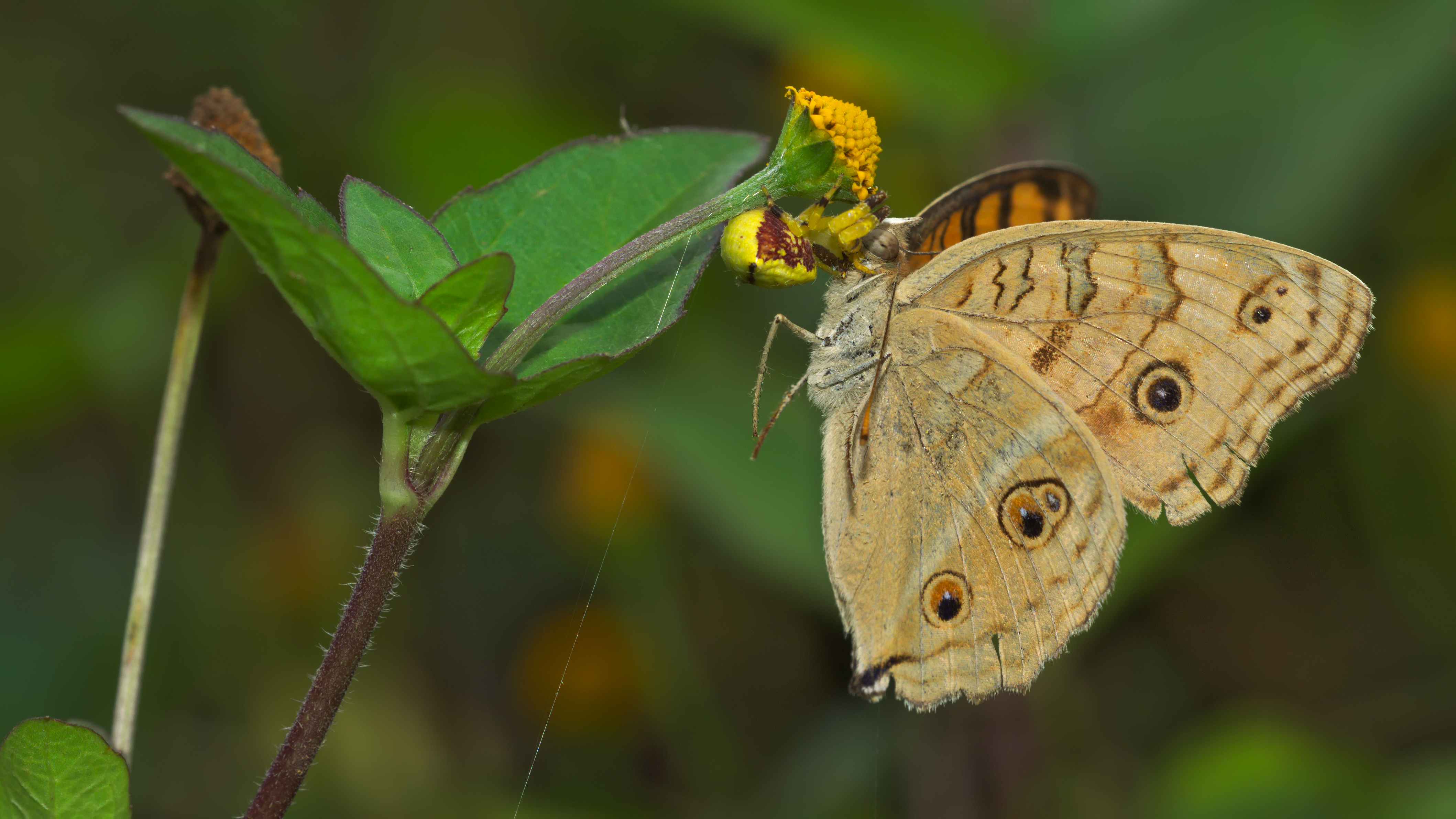 A Thomisus species Thomisidae feeding a Junonia almana on a Acmella ciliata flower. Older females require large amounts of relatively large prey to produce the best possible clutch of eggs. The female is able to undergo white to yellow or pink colour changes depending on the flower they are sitting on. These spiders change color by secreting a liquid yellow pigment into the outer cell layer of the body. This colour change facilitates camouflage on flower ambush sites and is completed within a few days. They are sedentary spiders and is usually noticed only when one sees a strangely positioned, usually upside down, insect and upon investigation, the insect can be seen to be in the grips of a spider. They wait for flying insects to settle, patient and motionless, with outstretched legs. When the prey is within range, they close their powerful front legs, catching the insect which can be up to 10 times their size. The insect is then bitten behind the head and killed. The insides are dissolved with enzymes and sucked from the exoskeleton and the empty, perfect form of the insect is dropped to the ground.